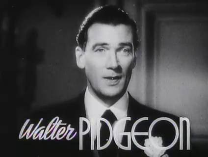 Walter Pidgeon in the trailer for the American film Man-Proof (1938).